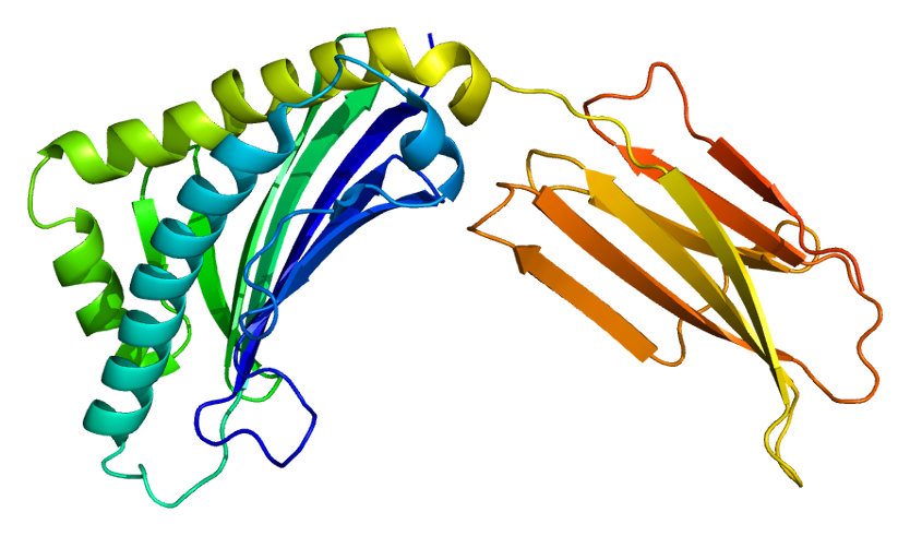 Structure of the AZGP1 protein. Based on PyMOL rendering of PDB 1t7v.